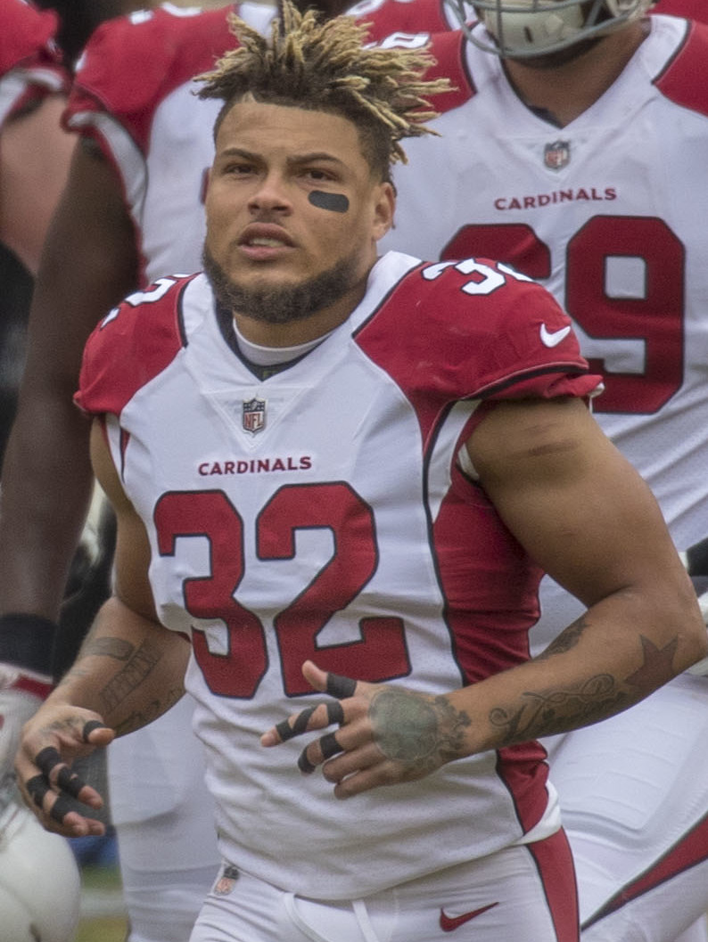 Cardinals at Redskins 12/17/17